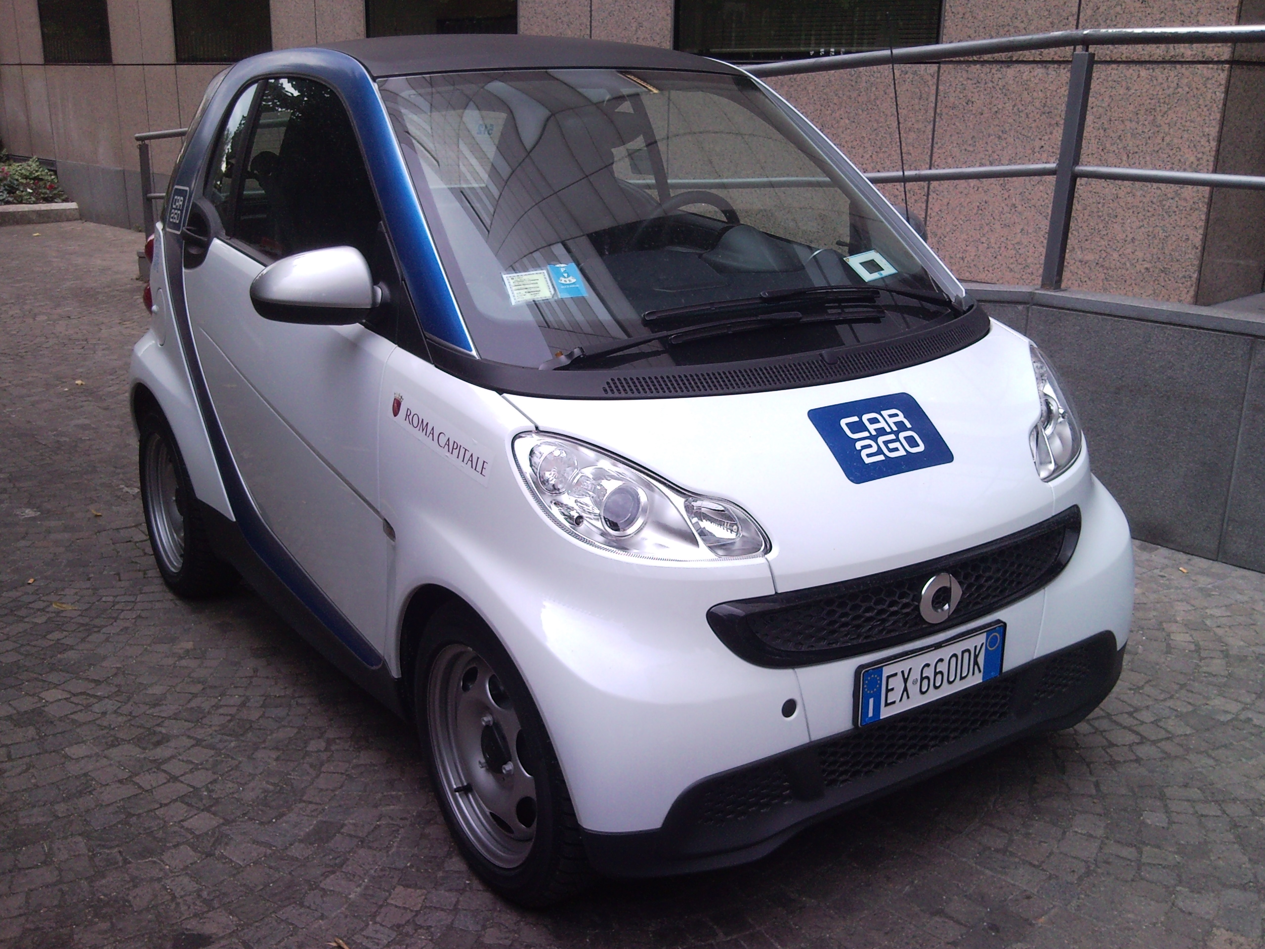 A Car2Go Smart Fortwo (W451) being presented in Rome, Italy